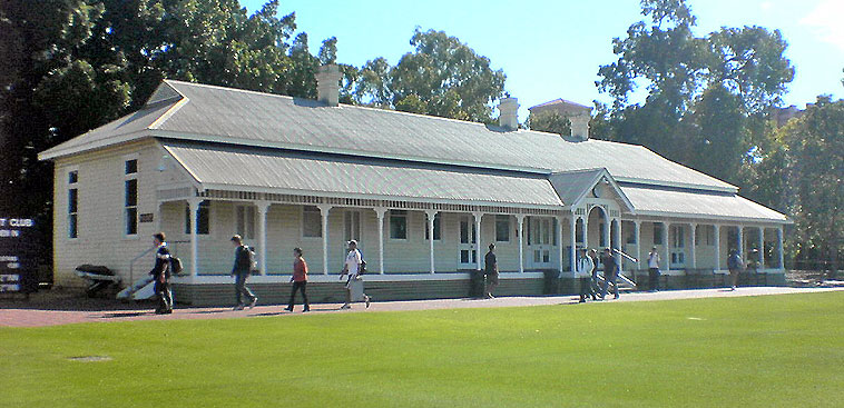 Photograph of the heritage listed Irwin St Building at UWA.